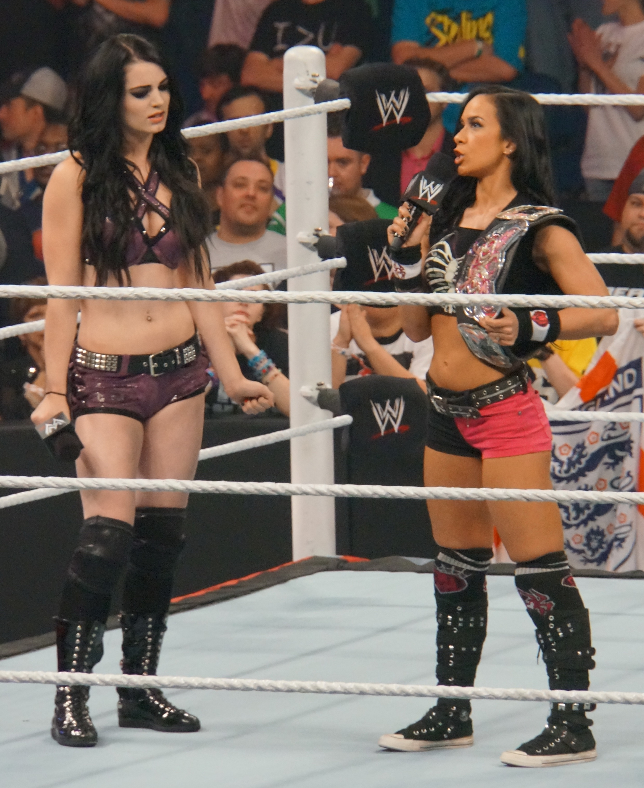 Current Divas Champion AJ Lee challenges Paige to an impromptu bout for the title after the latter interrupts her celebratory promo on WWE Raw. Originally taken 4/7, cropped for focus.